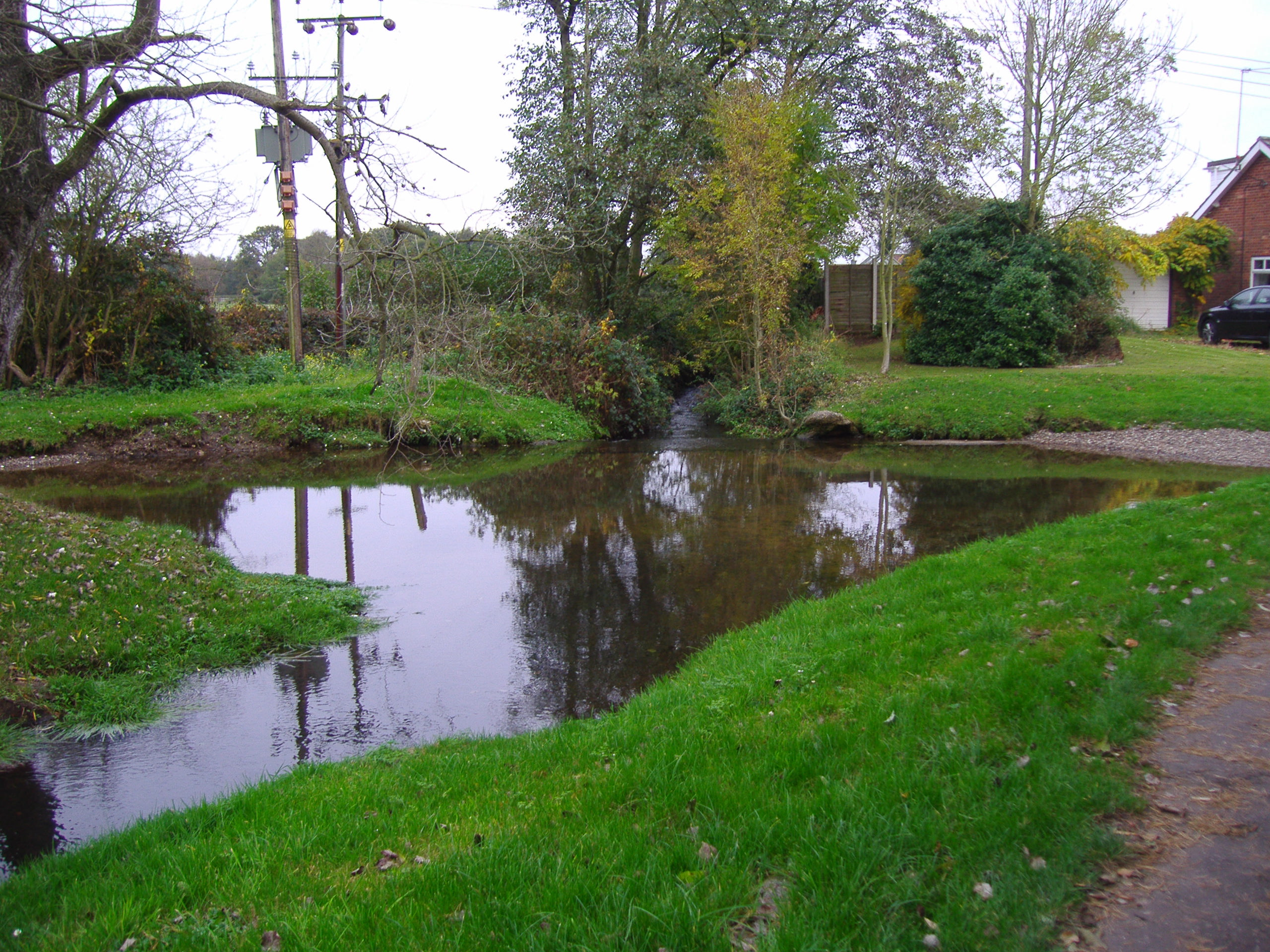 A Digital Photograph of the River Hor taken on the 2nd November 2007 by stavros1